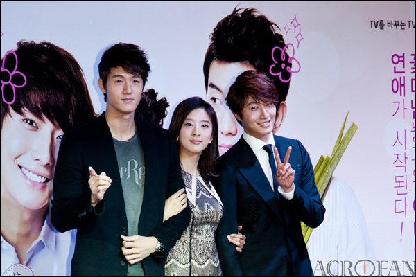 Cast of Flower Boy Ramyun Shop at a press conference